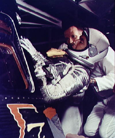 Astronaut Walter M. Schirra Jr., pilot of the Mercury-Atlas 8 (MA-8) earth orbital space flight, is assisted by back-up pilot L. Gordon Cooper into his Sigma 7 spacecraft for the begining of the MA-8 mission.